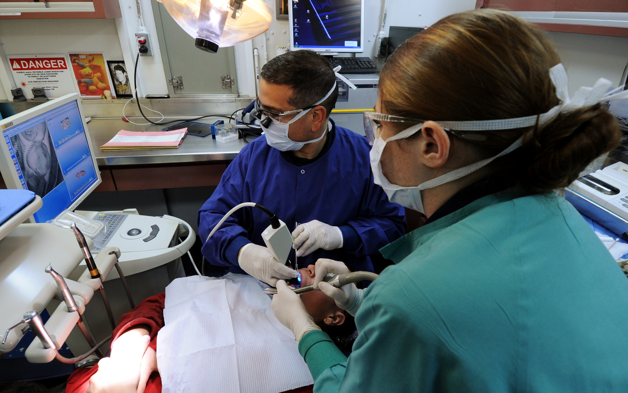 ARABIAN SEA (Sept. 25, 2010) Cmdr. Jorge Graziani, left, the ship's dental officer, and Hospital Corpsman 3rd Class Megan Castle, a dental hygienist, take a three-dimensional photograph of a patient's tooth. The photograph will be used to create a crown using a CEREC (Chair side Economical Restoration Esthetic Ceramic) machine aboard the aircraft carrier USS Harry S. Truman (CVN 75). Harry S. Truman has been selected to test the new machine to determine shipboard suitability. The Harry S. Truman Carrier Strike Group is deployed supporting maritime security operations and theater security cooperation efforts in the U.S. 5th Fleet area of responsibility. (U.S. Navy photo by Mass Communication Specialist Seaman Donald White/Released)